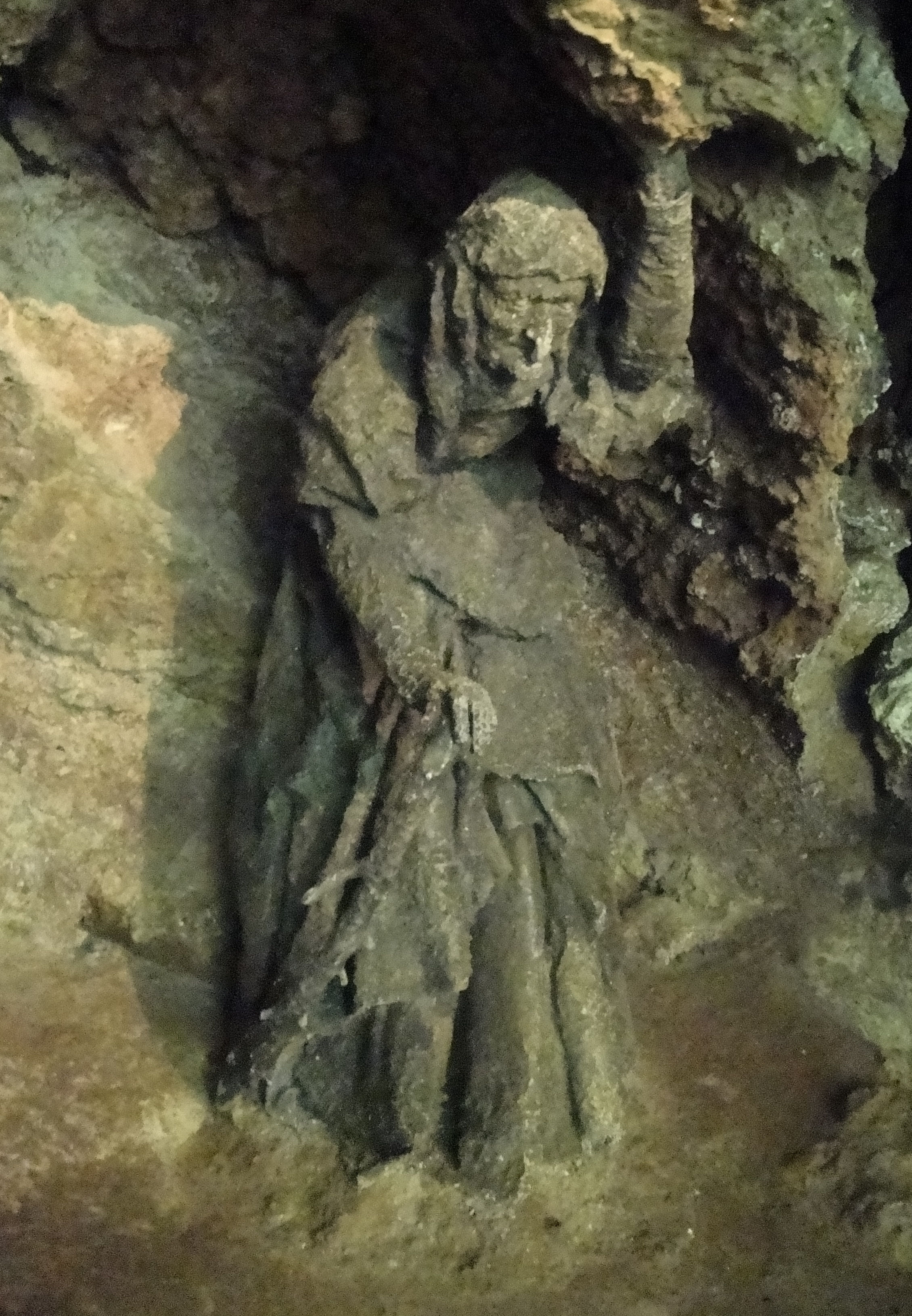 Scultpure of Mother Shipton in her alleged birthplace a cave in Knaresborough